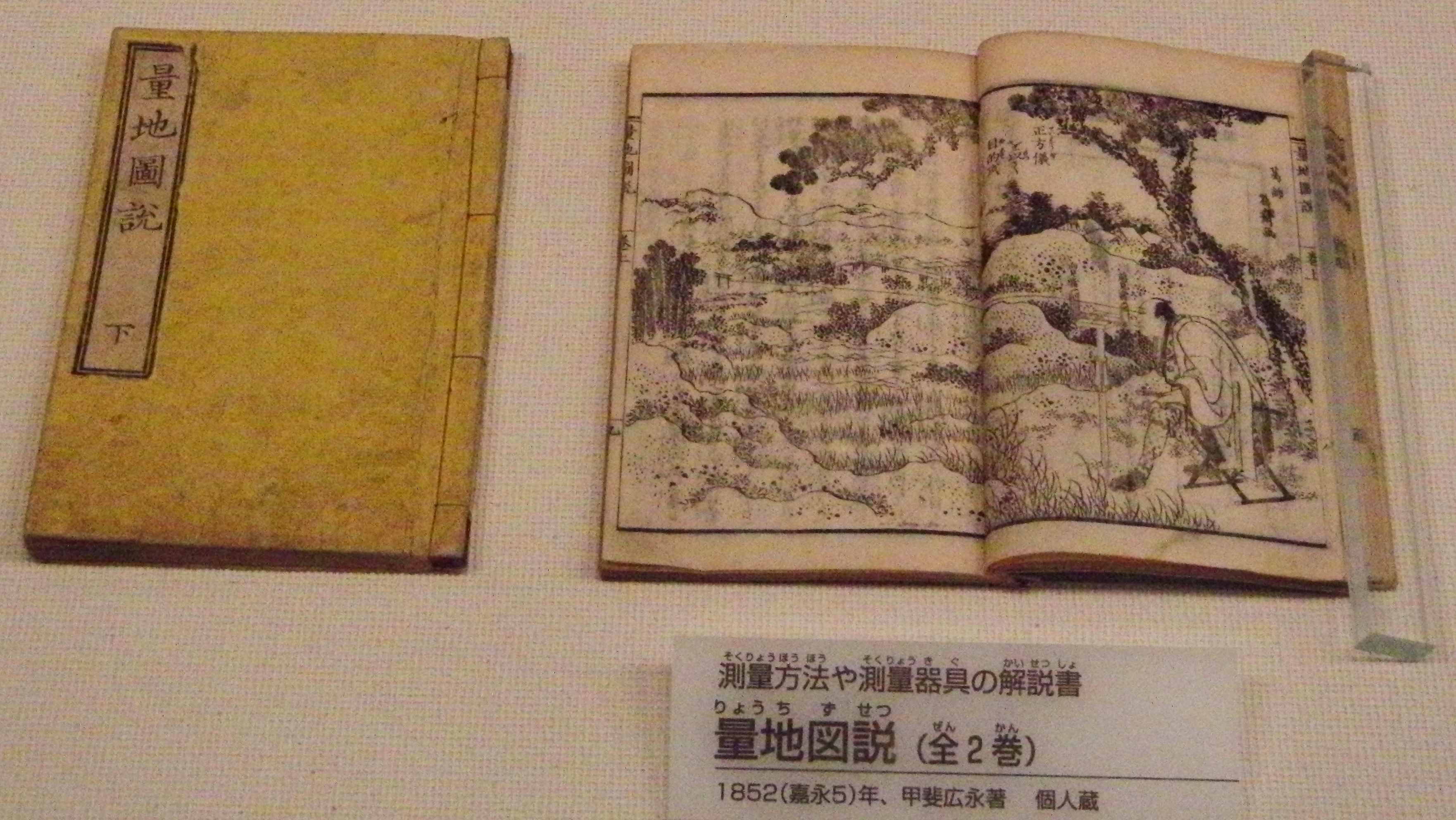 "Ryouchi Zusetsu". Technical book of surveying written by Hironaga KAI published in 1852. Exhibit in the National Museum of Nature and Science, Tokyo, Japan.